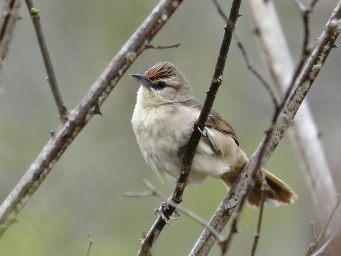 Rufous-fronted thornbird; Boa Nova, Bahia, Brazil